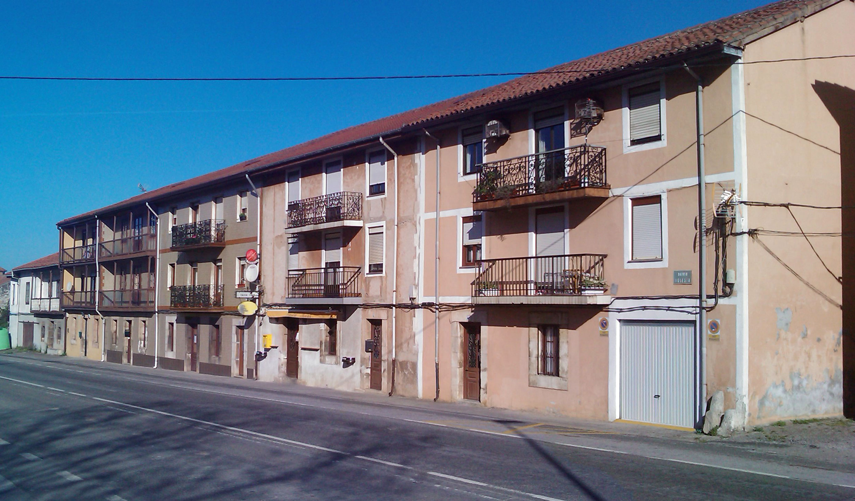 Row of typical houses in San Salvador Medio Cudeyo, Cantabria, Spain